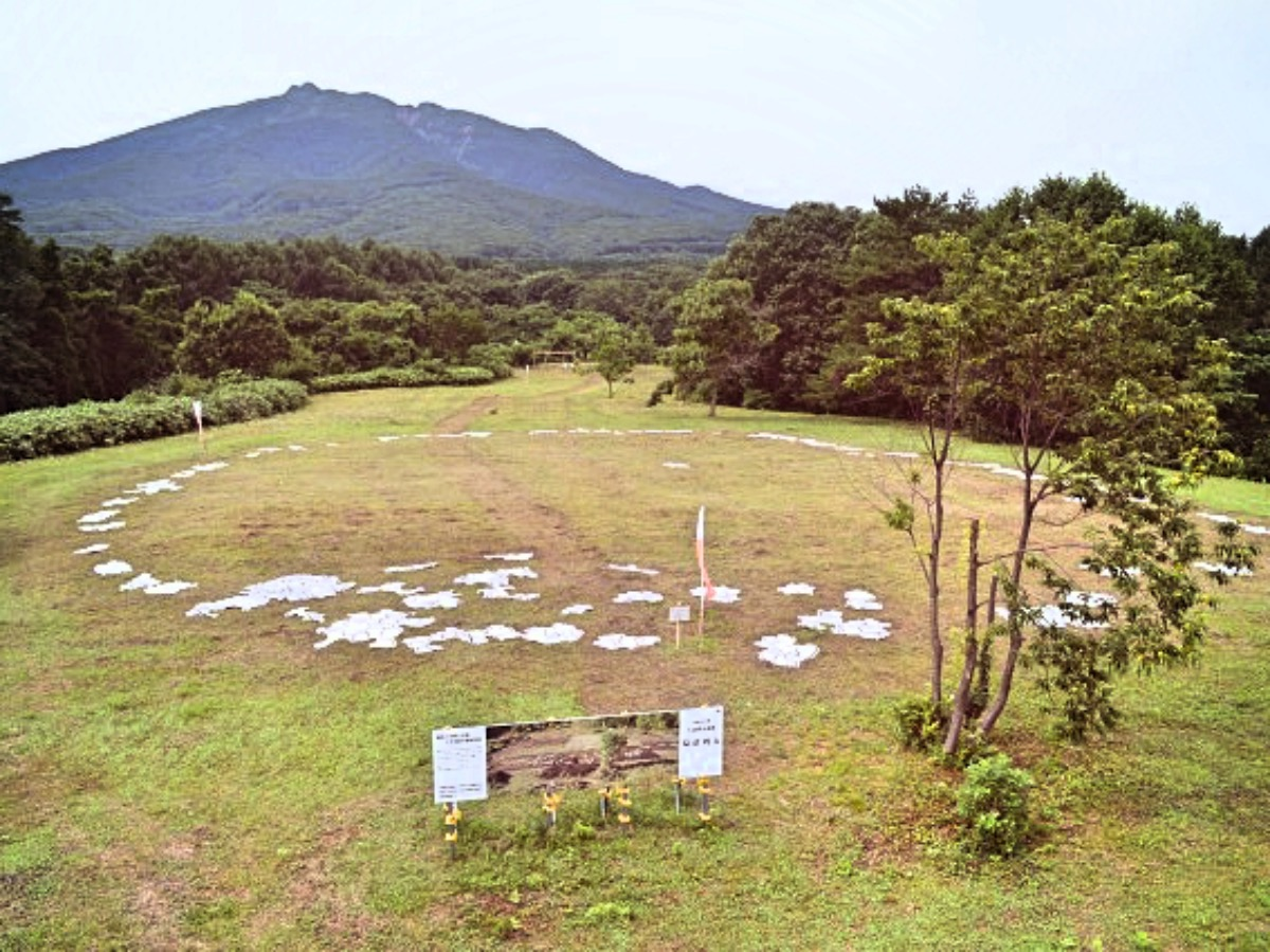 Stoen circle at Ōmori Katsuyama site in the city of Hirosaki, Aomori Prefecture, Japan